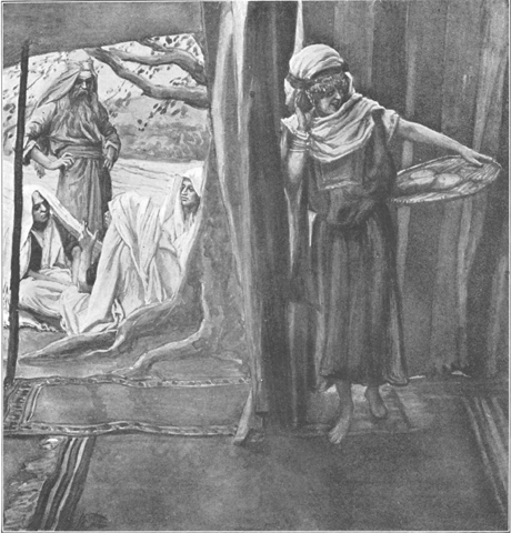 Sarah Hears and Laughs, circa 1896–1902, by James Jacques Joseph Tissot (French, 1836-1902)